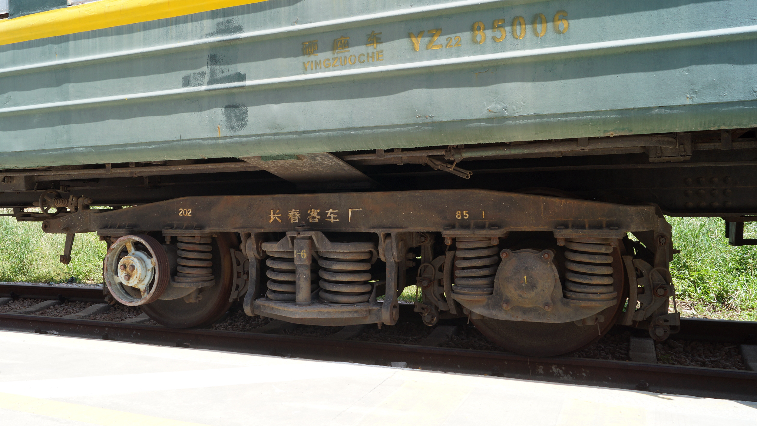 The type 202 bogie used on a China Railways YZ22 passenger car